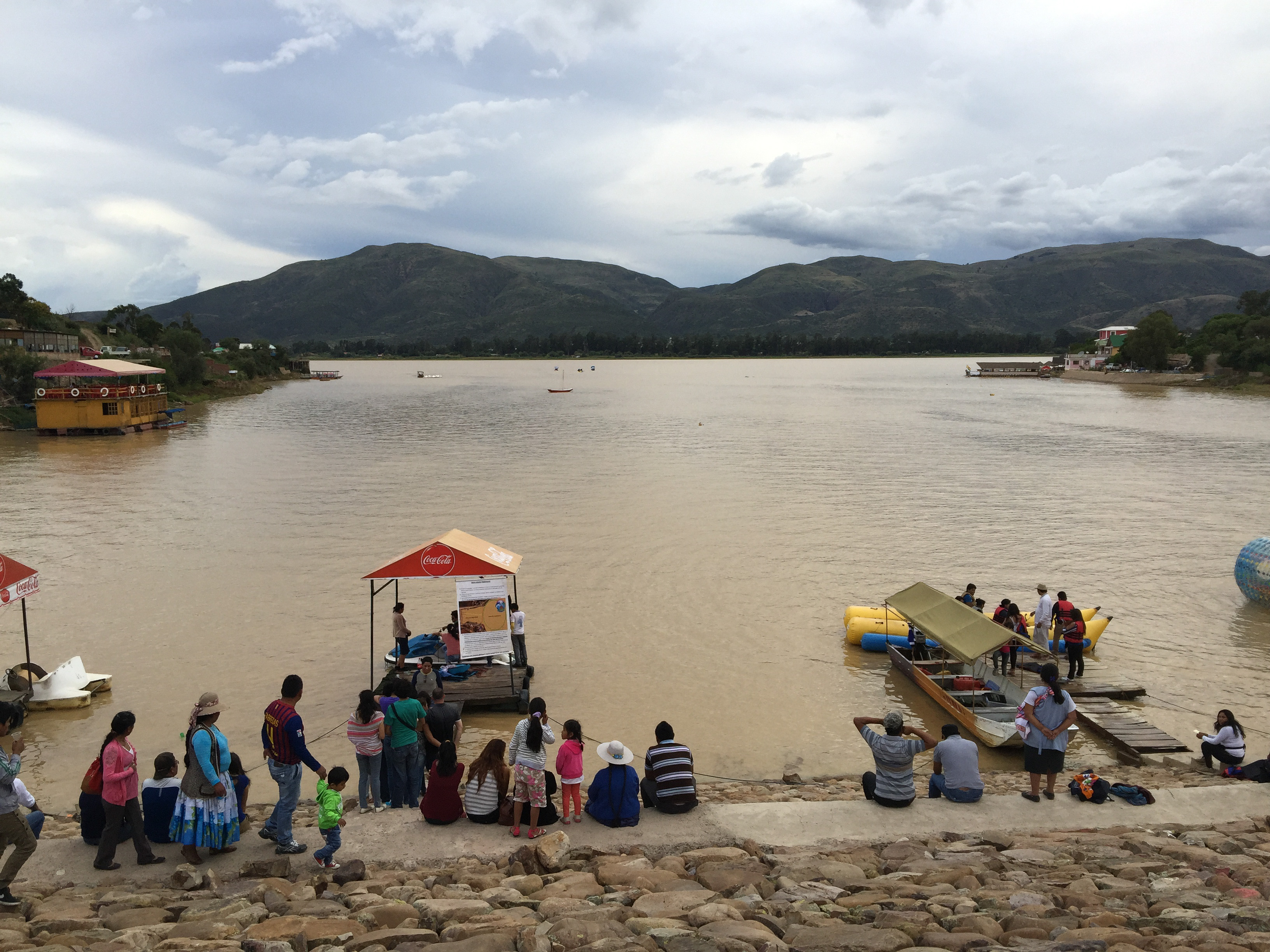 Laguna Angostura near Cochabamba, Bolivia